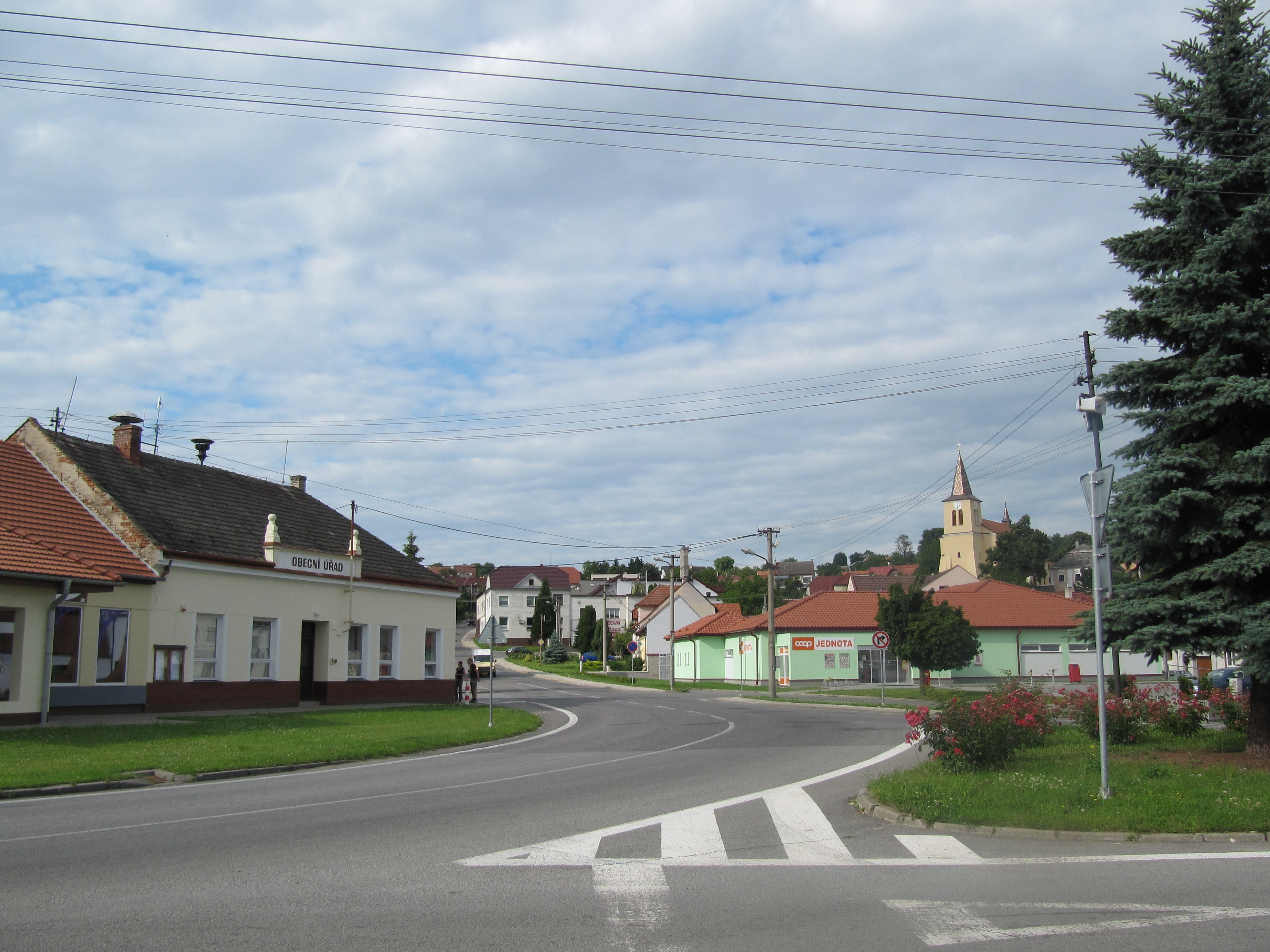 Boršice in Uherské Hradiště District, Czech Republic. Center of the village with municipal office and the church of St. Wenceslas.